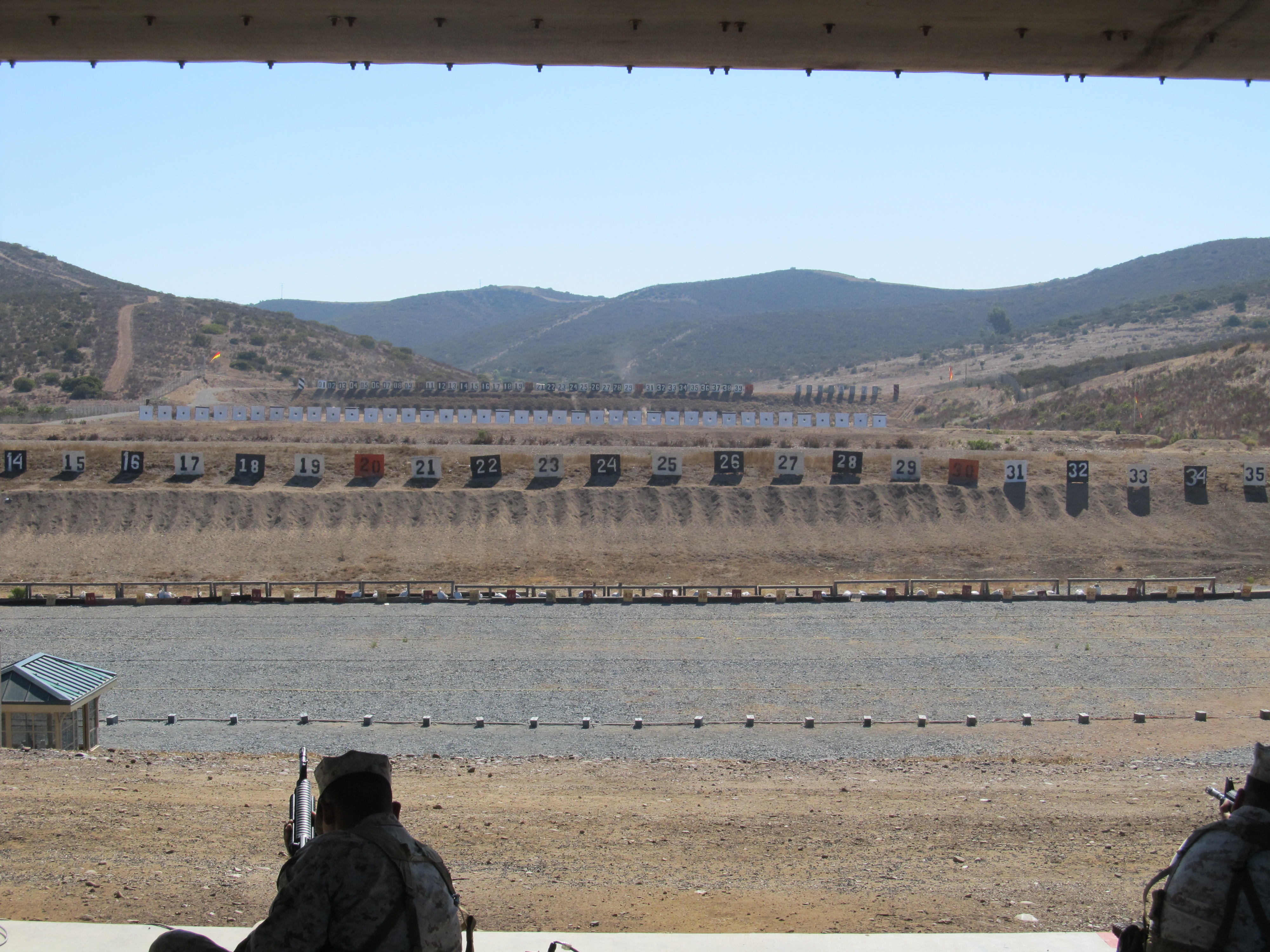 Outdoor firing range showing different distances that shooters must practice for their firearms qualifications